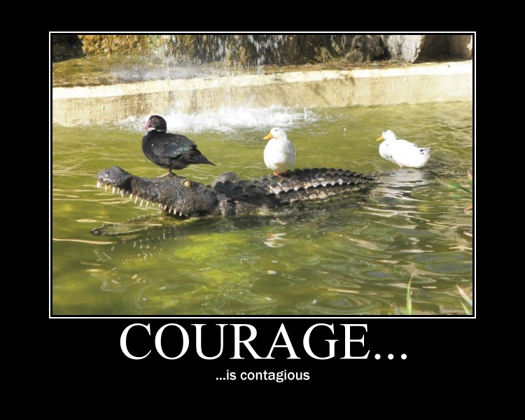 Motivational poster: Courage is contagious (WikiLeaks slogan). Three real ducks over a fake cocodrile. Genoves Park, Cádiz, Spain.